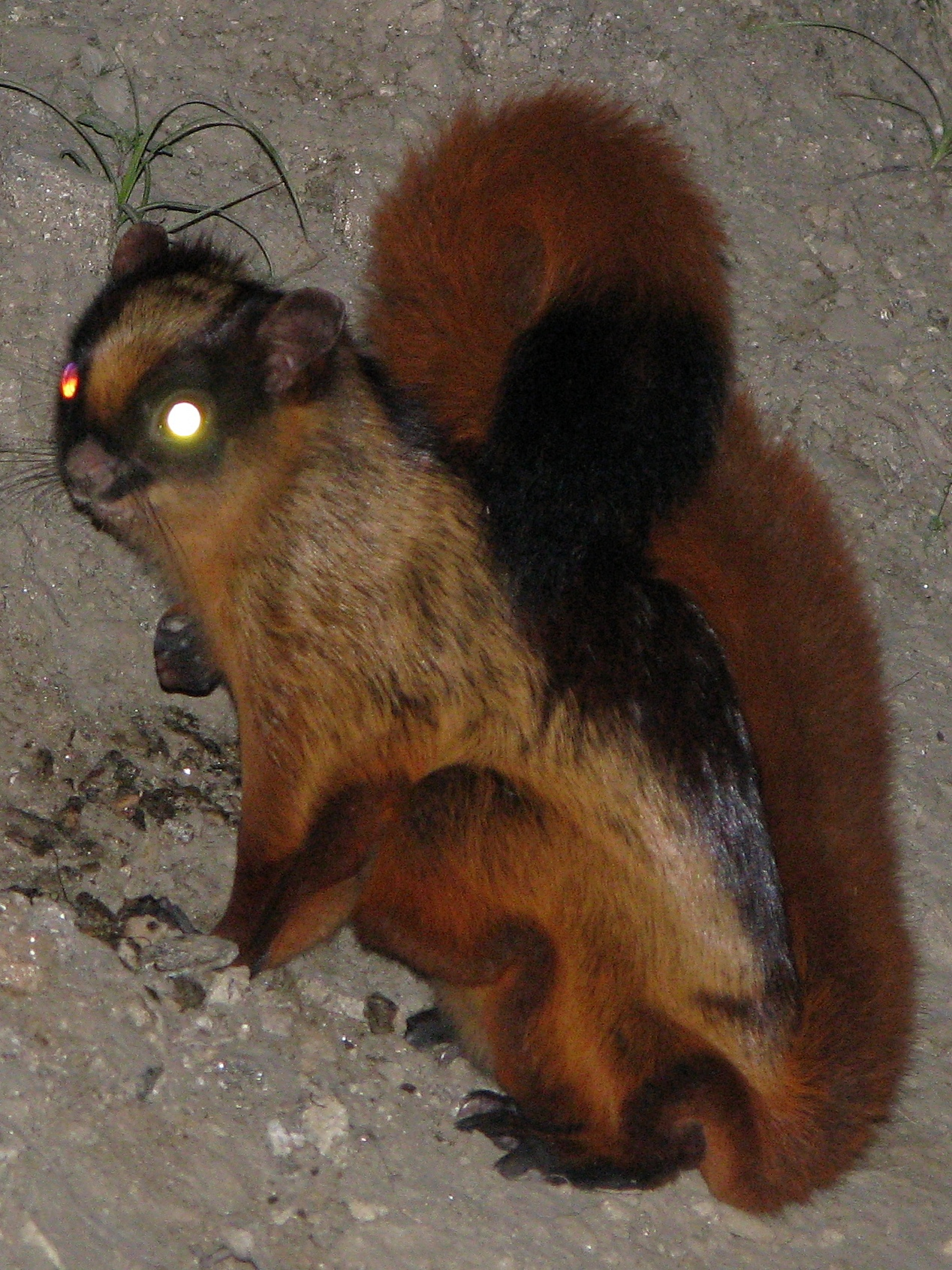 Bhutan giant flying squirrel (Petaurista nobilis) in Sikkim, India